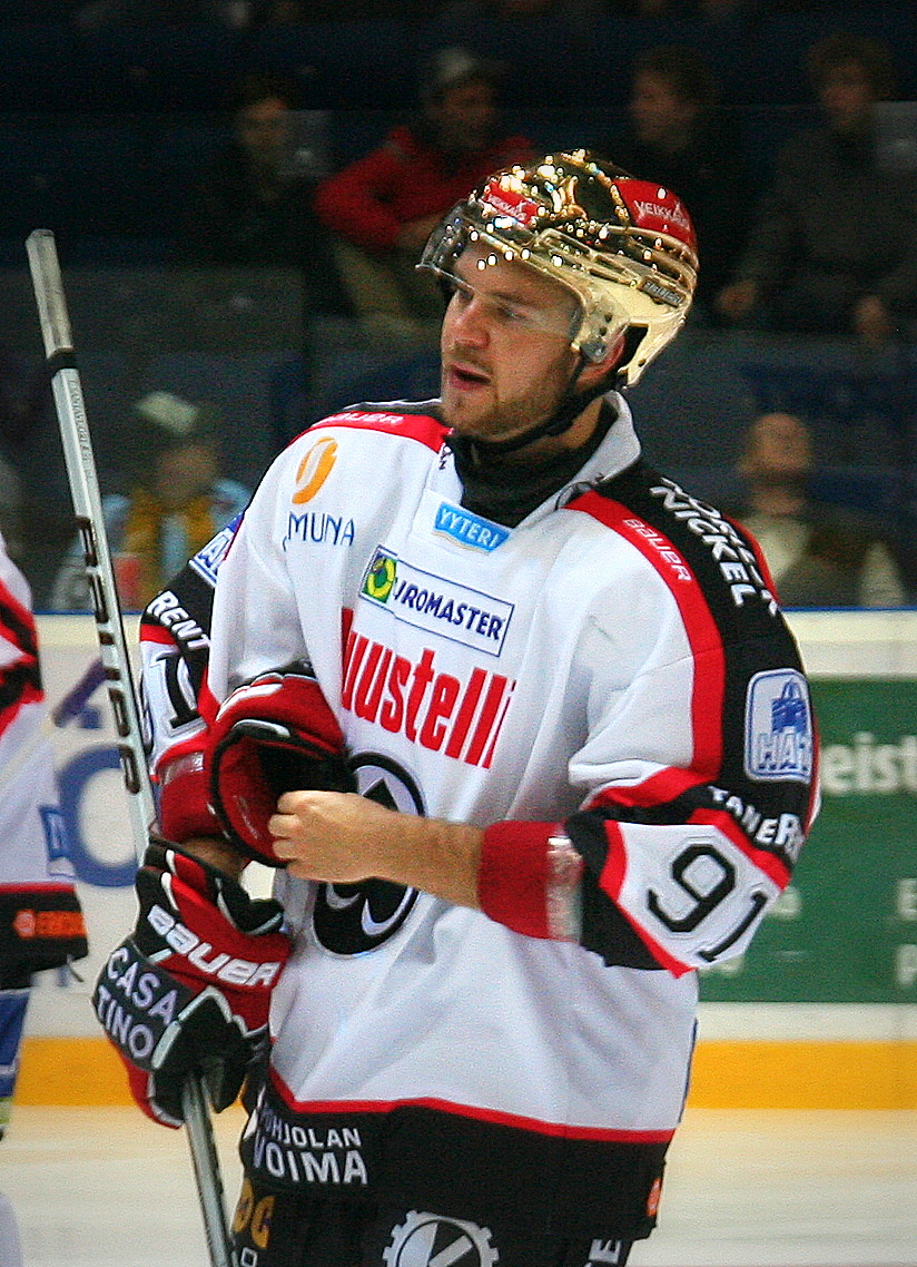 Ice Hockey Team Porin Ässät Attacker #91 Tuomas Santavuori